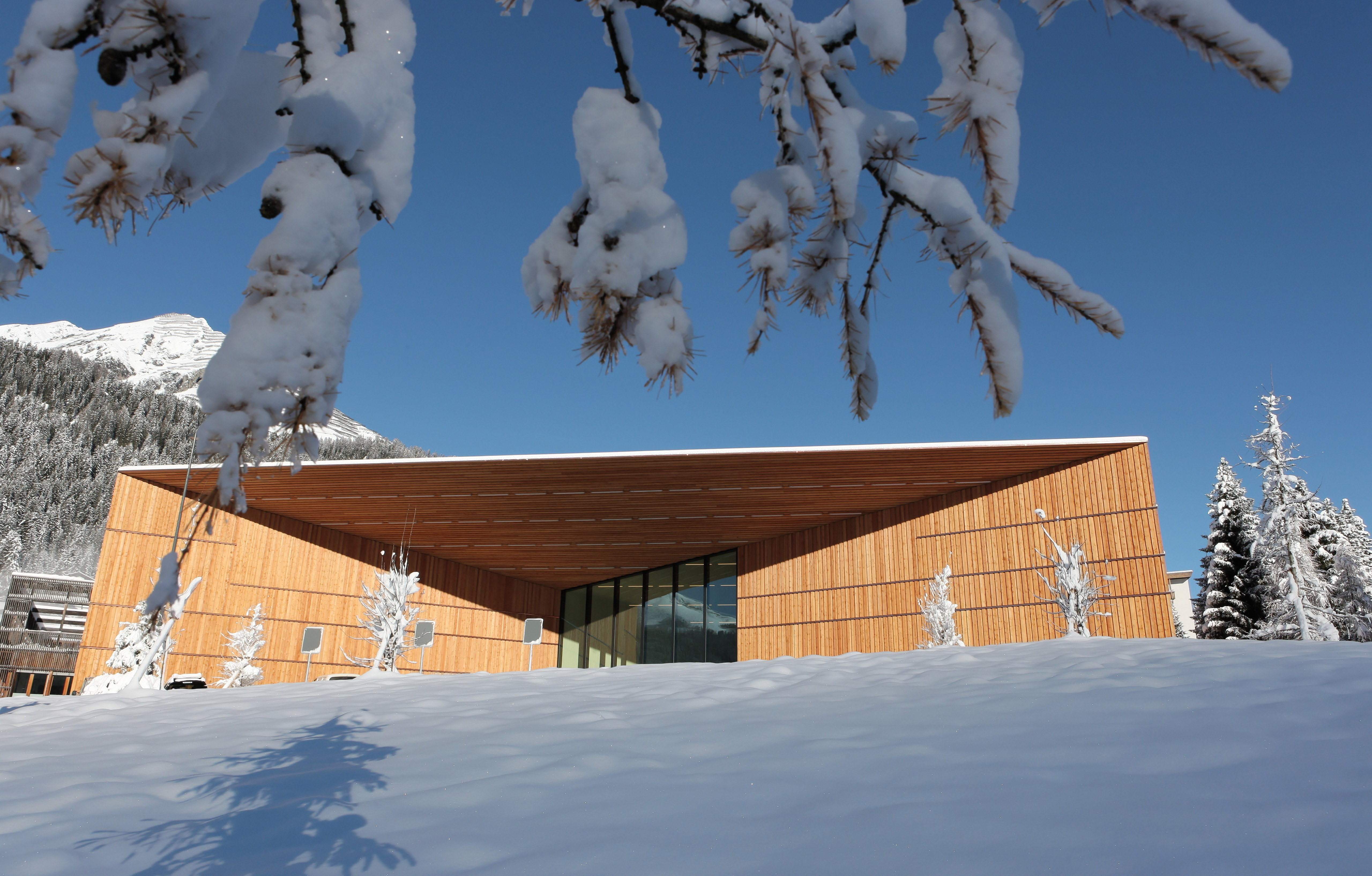 DAVOS, 17NOV10 - Impression of the new part of the Congress Center Davos on Tuesday, November 17, 2010 in Davos/Switzerland. The main access of the Congress Center is relocated and representatively designed with a generous reception hall offering an entrance from the Talstrasse. The new congress hall with a floor space of 1300 square meters will accommodate up to 2000 people. With the expansion the floor space of the Congress Center will be increased about 3600 sq.m.